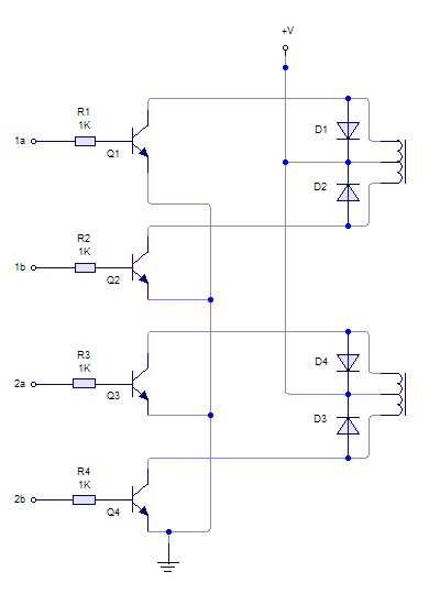 Diagram of a the transitor driving of a unipolar stepper motor.